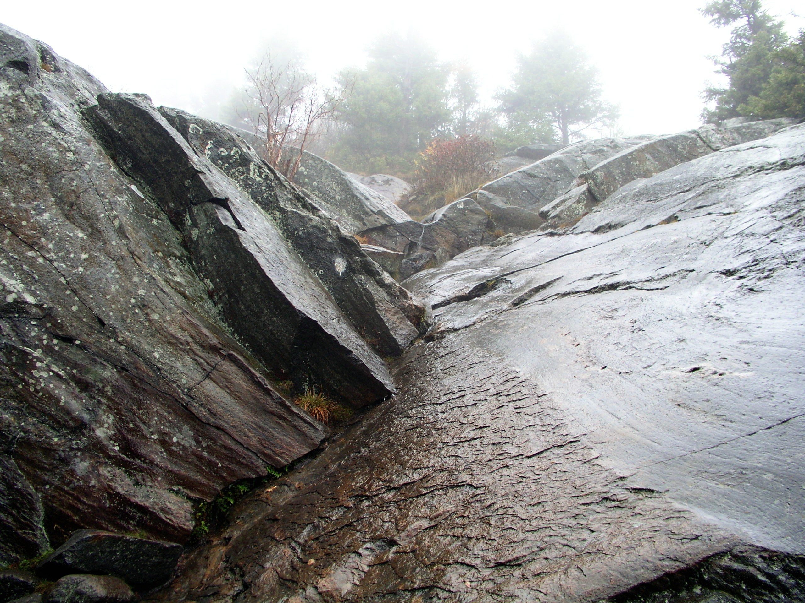 About half of the way up on the White Dot trail, Mount Monadnock, New Hampshire.